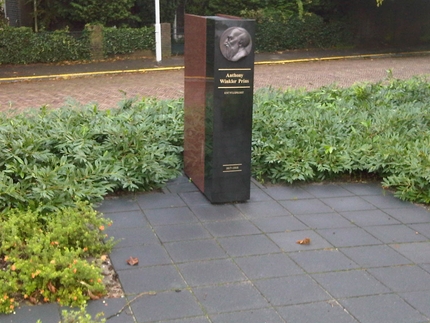 Monument for Anthony Winkler Prins, Voorburg